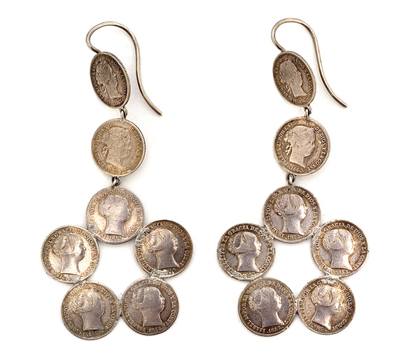 Earrings made from silver coins.